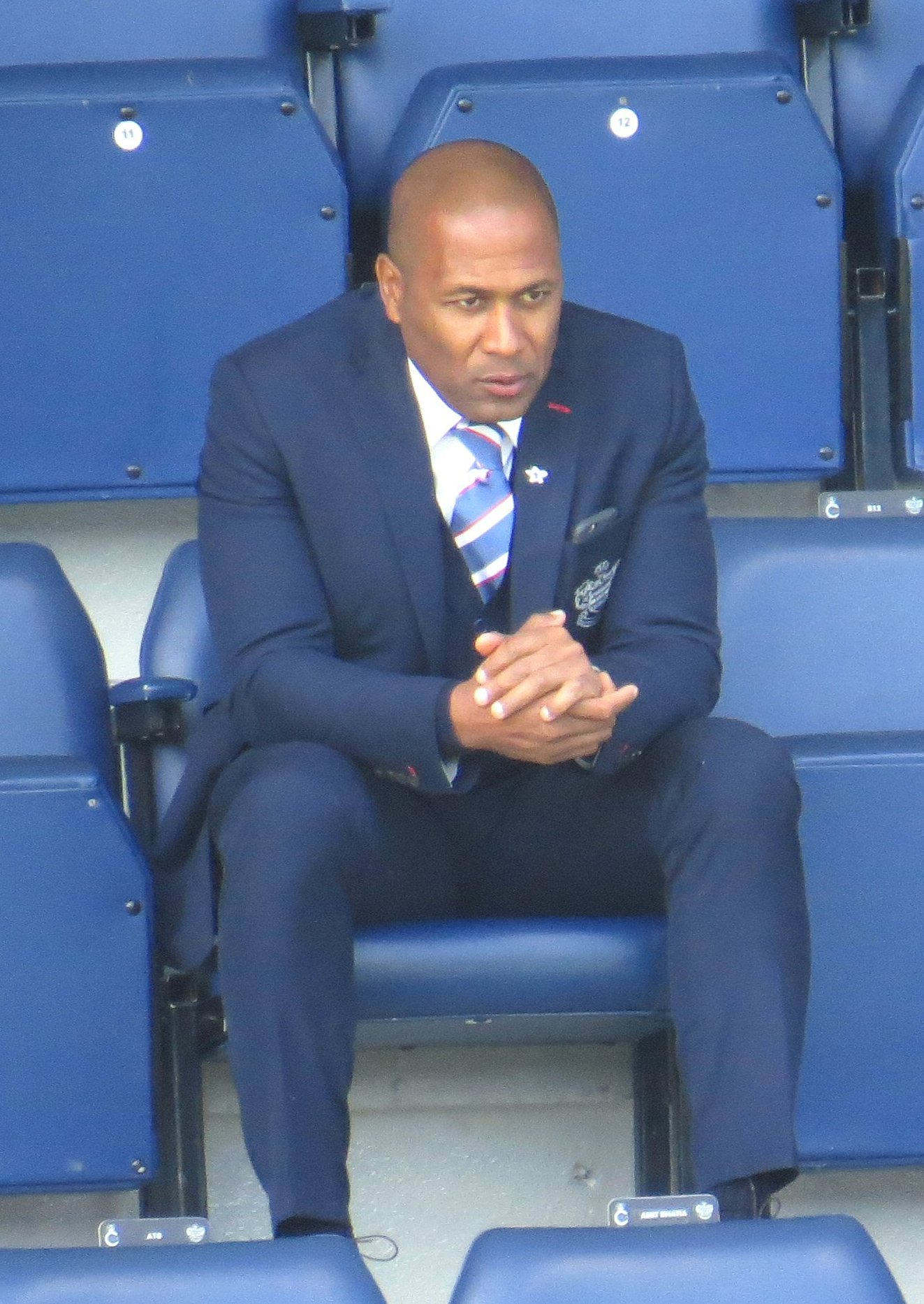 Les Ferdinand watches the last QPR home game of the 2014-15 season v Newcastle